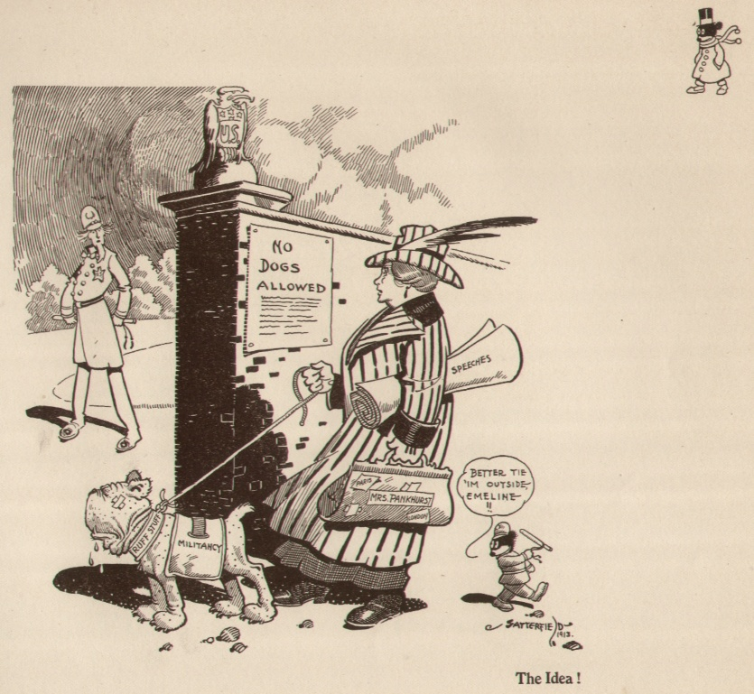 as Emmeline Pankhurst -- carrying an armful of speeches, and accompanied by her dog Militancy -- approaches the gate of the United States of America, she sees that dogs are not allowed.